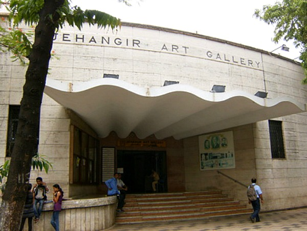 This is one of the prestigeous art galleries of Mumbai